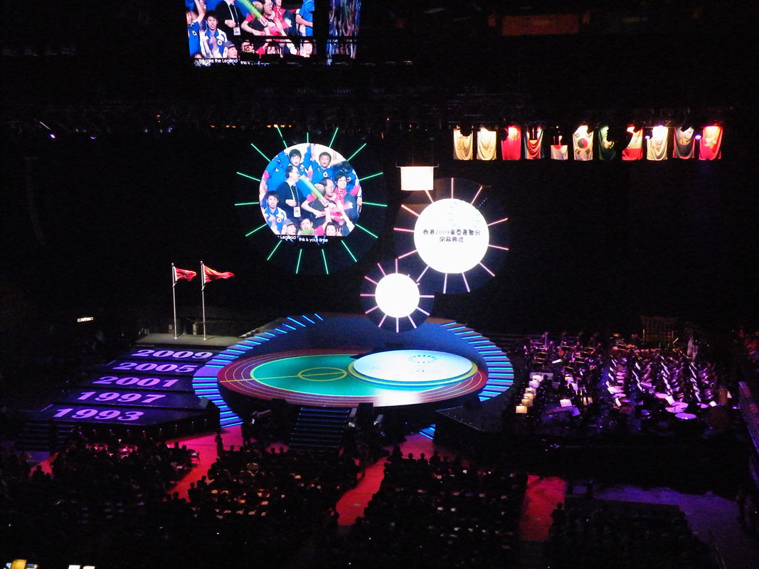 2009 East Asian Games Closing Ceremony - Main Stage